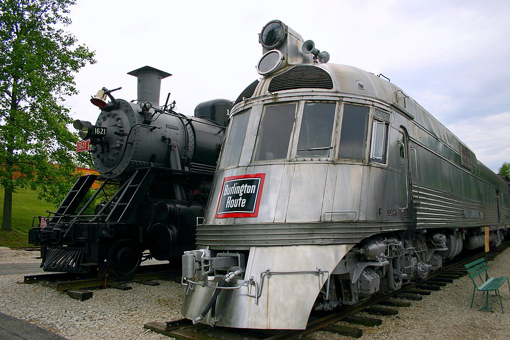 Burlington Zephyr set next to a Frisco 2-10-0 This is the General Pershing Zephyr. See File:General Pershing Zephyr-Silver Charger - 20081123.jpg. The Pioneer Zephyr is at Chicago's Museum of Science and Industry.